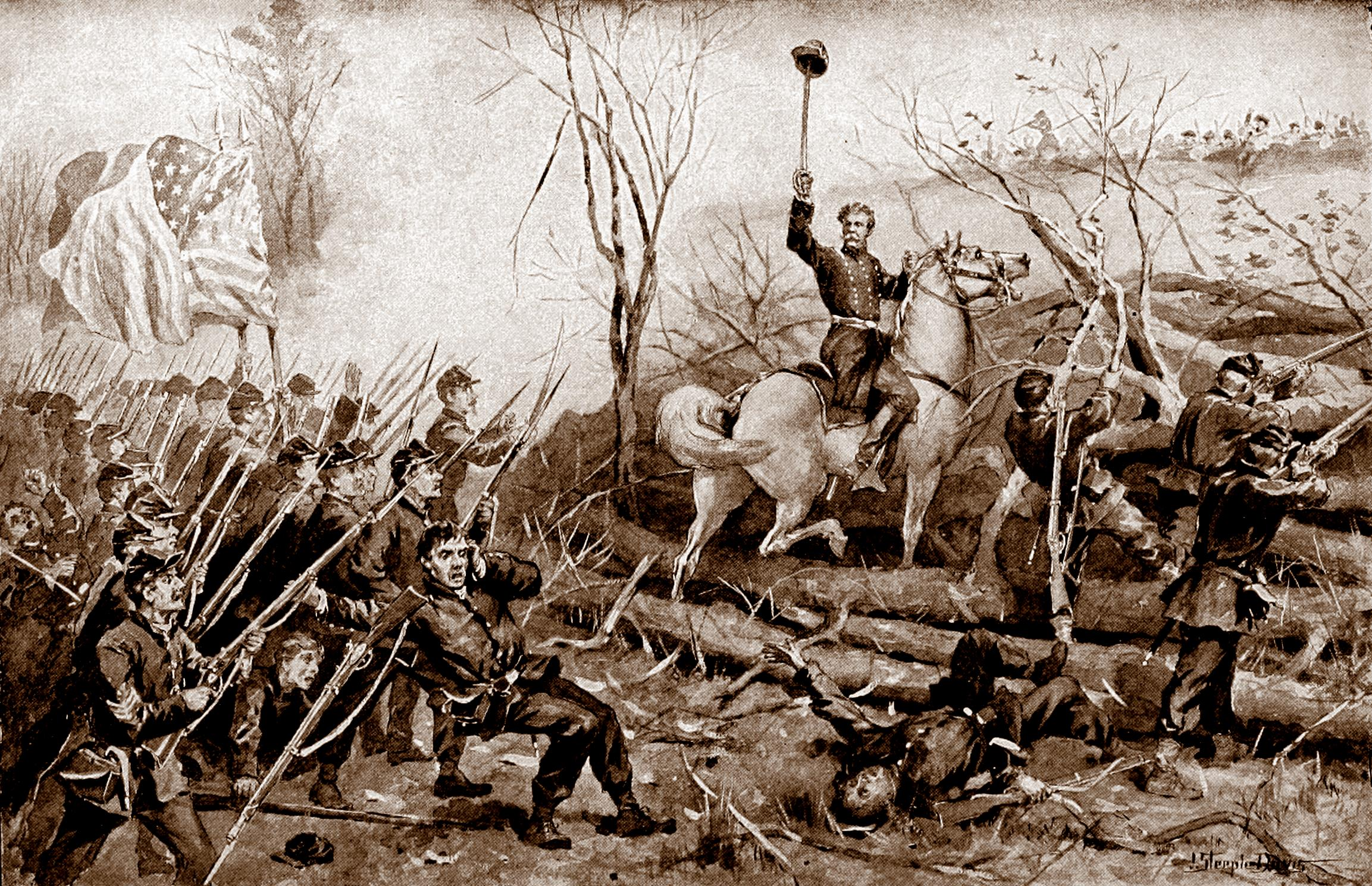 Drawing by John Steeple Davis of the attack on Fort Donelson. The victory which brought Grant fame. General Ulysses S. Grant's capture of Fort Donelson, February, 1862.